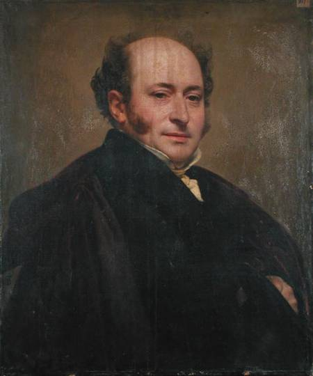 Jean-Pierre Granger, Self Portrait, Paris, musée Carnavalet.